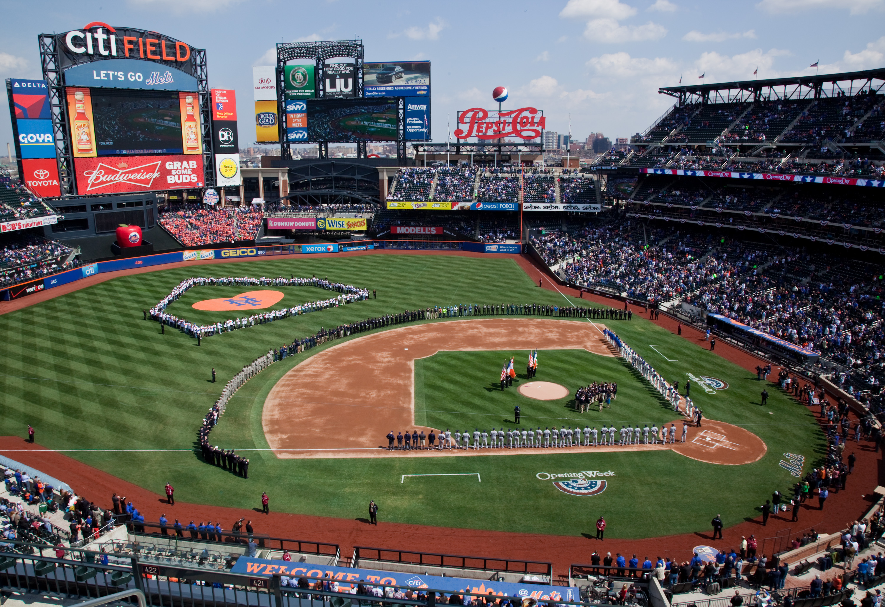 Flushing, NY, April 1, 2013 - Hurricane Sandy first responders and volunteers were honored at Citi Field during the pre game ceremony for Mets opening day. More than 500 first responders to Hurricane Sandy lined up on the field for the national anthem including FEMA representatives, police, firefighters, military personnel and Habitat for Humanity volunteers. Ashley Andujar/FEMA